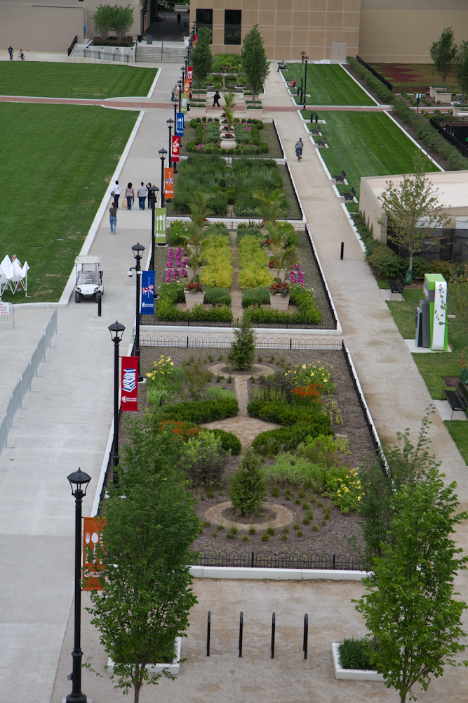 The gardens at Columbus Commons in Downtown Columbus, Ohio.